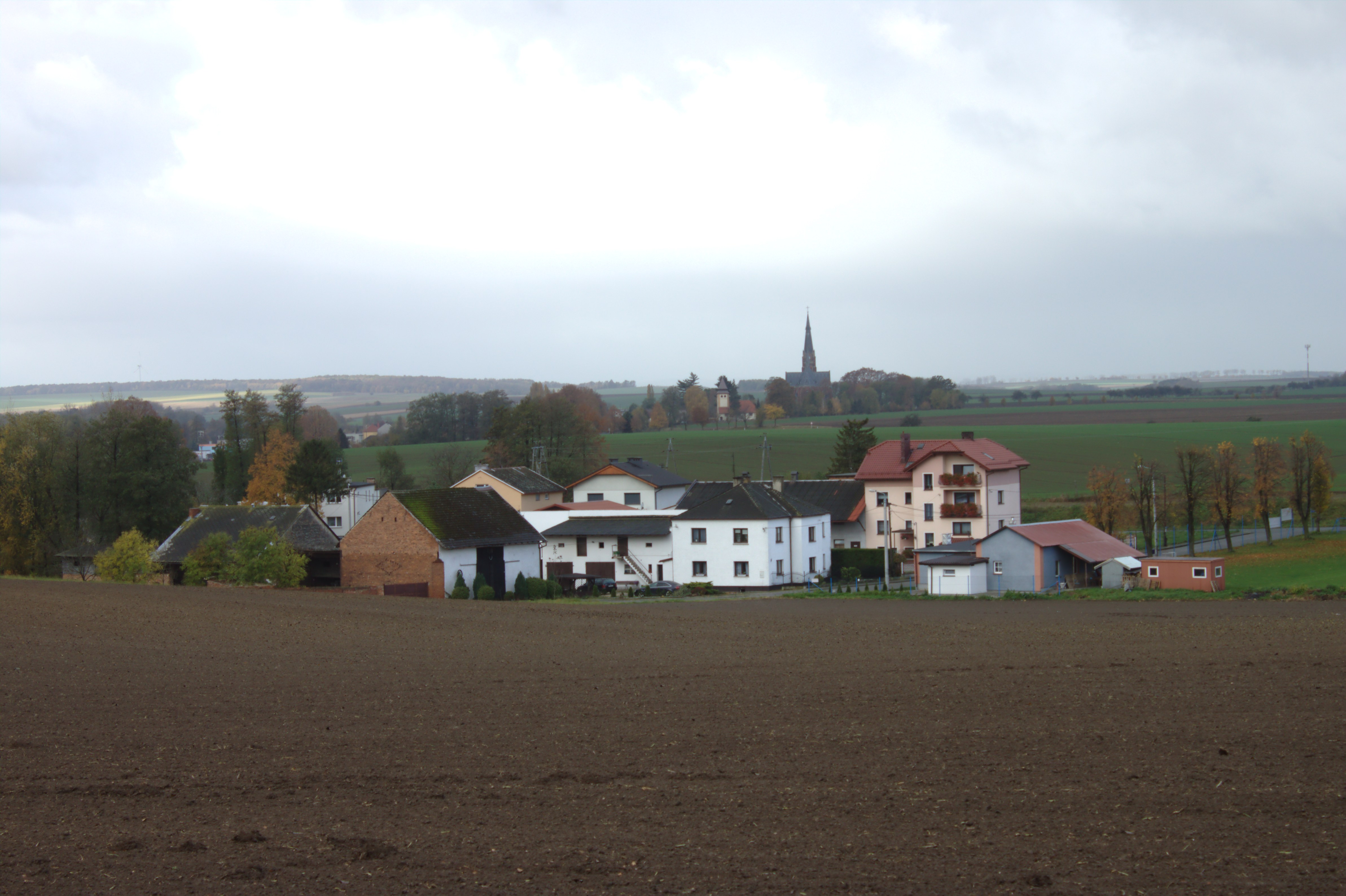 Buildings in Pietraszyn, Poland